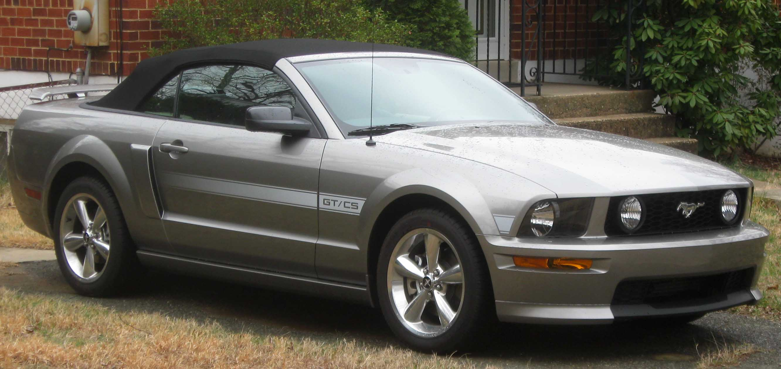 2005-2009 Ford Mustang GT/CS photographed in Rockville, Maryland, USA.